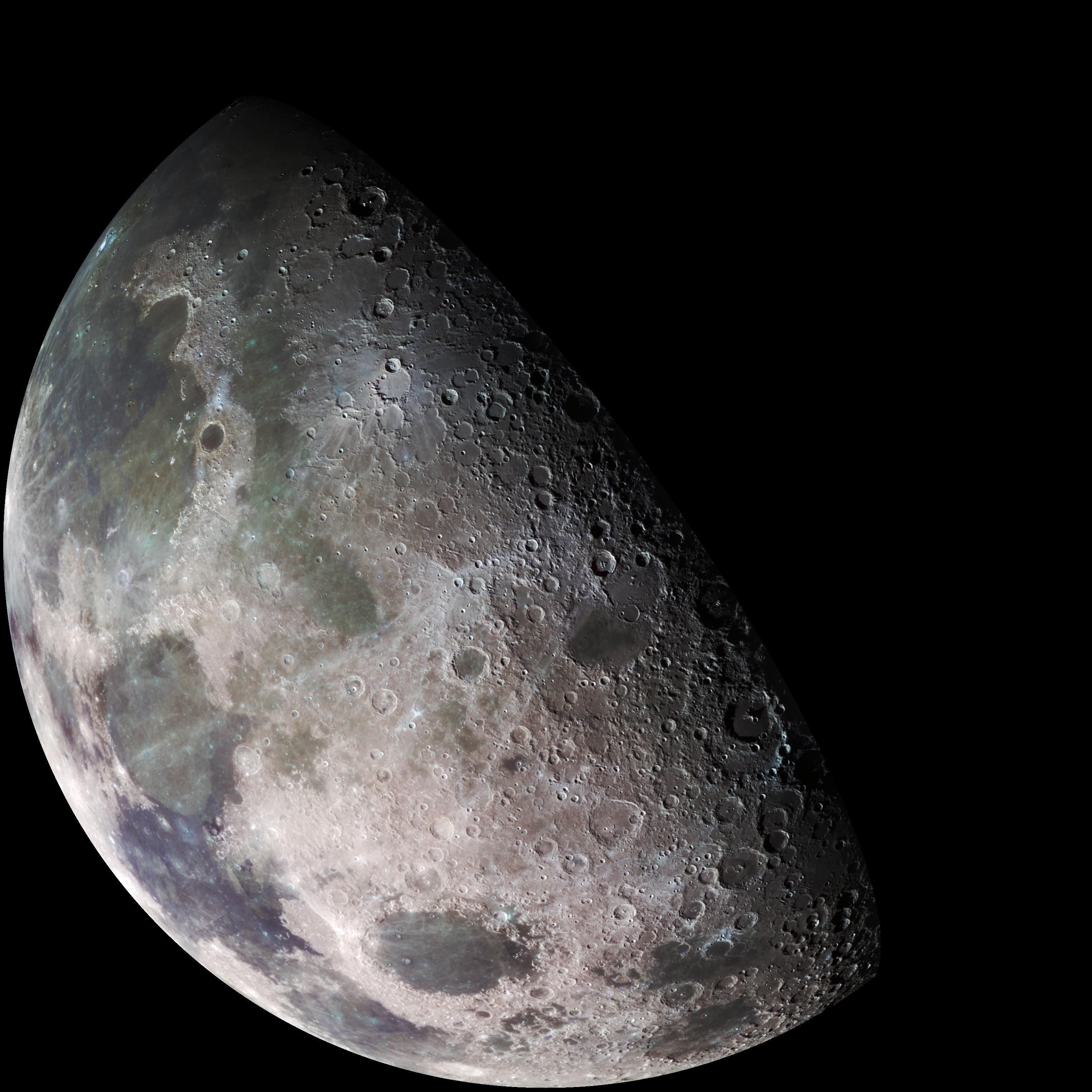 During its mission, the Galileo spacecraft returned a number of images of Earth's only natural satellite. Galileo surveyed the moon on its way to explore the Jupiter system. This colour mosaic was assembled from 18 images taken by Galileo's imaging system through a green filter. On the upper-left is the dark, lava-filled Mare Imbrium, Mare Serenitatis (middle left), Mare Tranquillitatis (lower left), and Mare Crisium, the dark circular feature toward the bottom of the mosaic. Also visible in this view are the dark lava plains of the Marginis and Smythii Basins at the lower right. The Humboldtianum Basin, a 400-mile impact structure partly filled with dark volcanic deposits, is seen at the centre of the image.